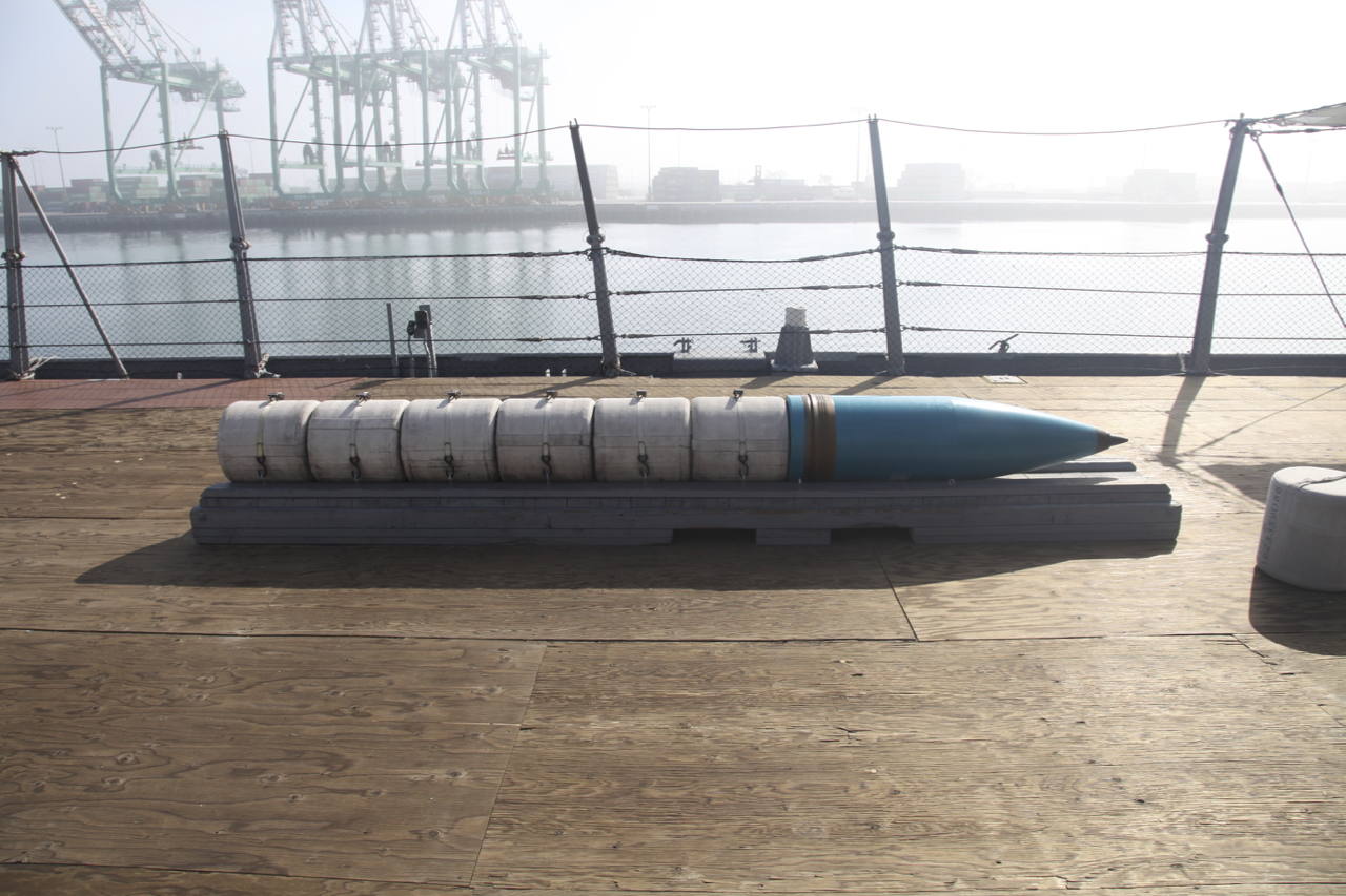 16"/50 gun projectile plus six propellant bags. Display mockup aboard USS Iowa (BB-61) in San Pedro, CA in 2016.